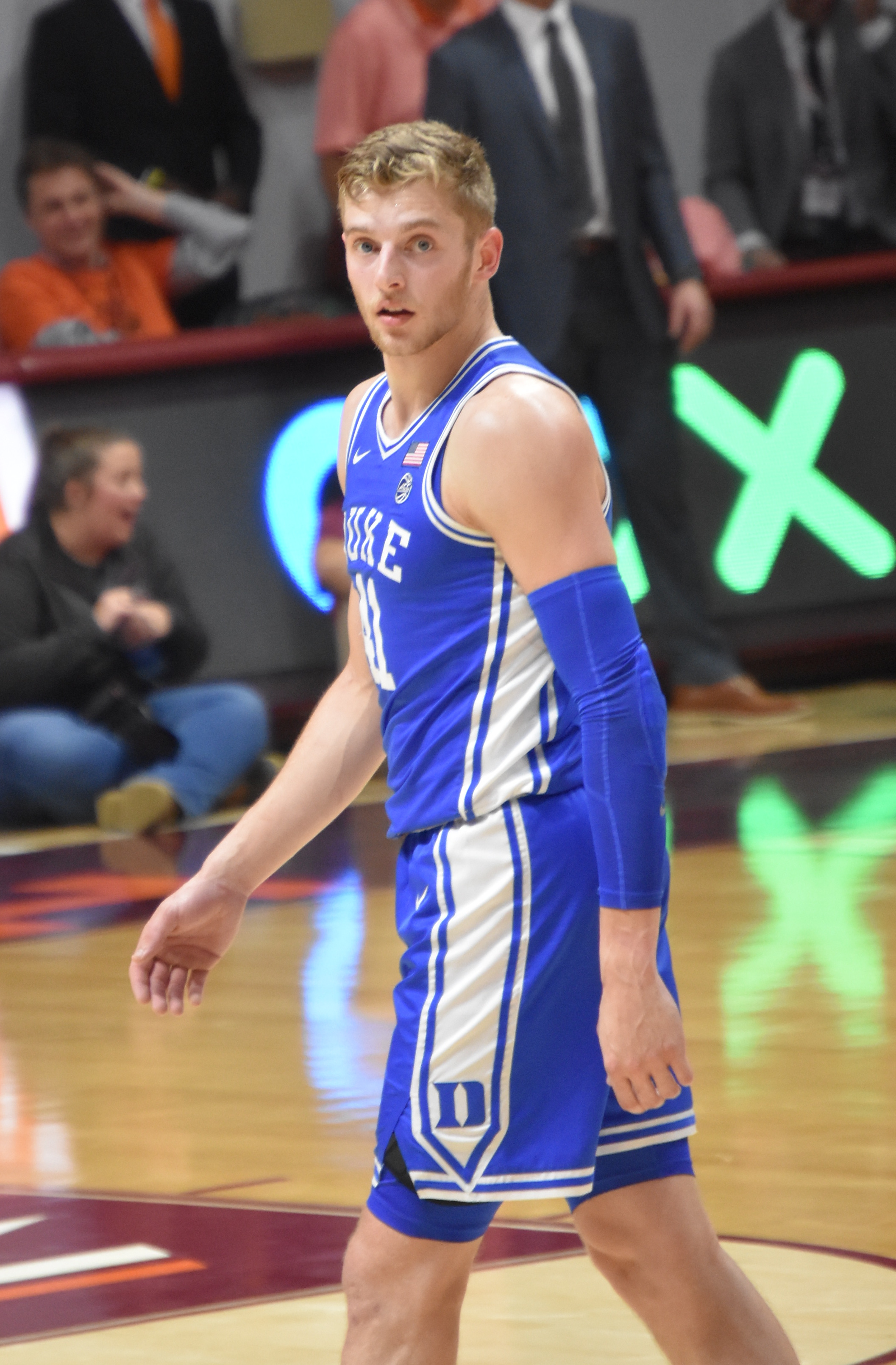 Alex O'Connell on the floor for the Blue Devils at Cassell Coliseum